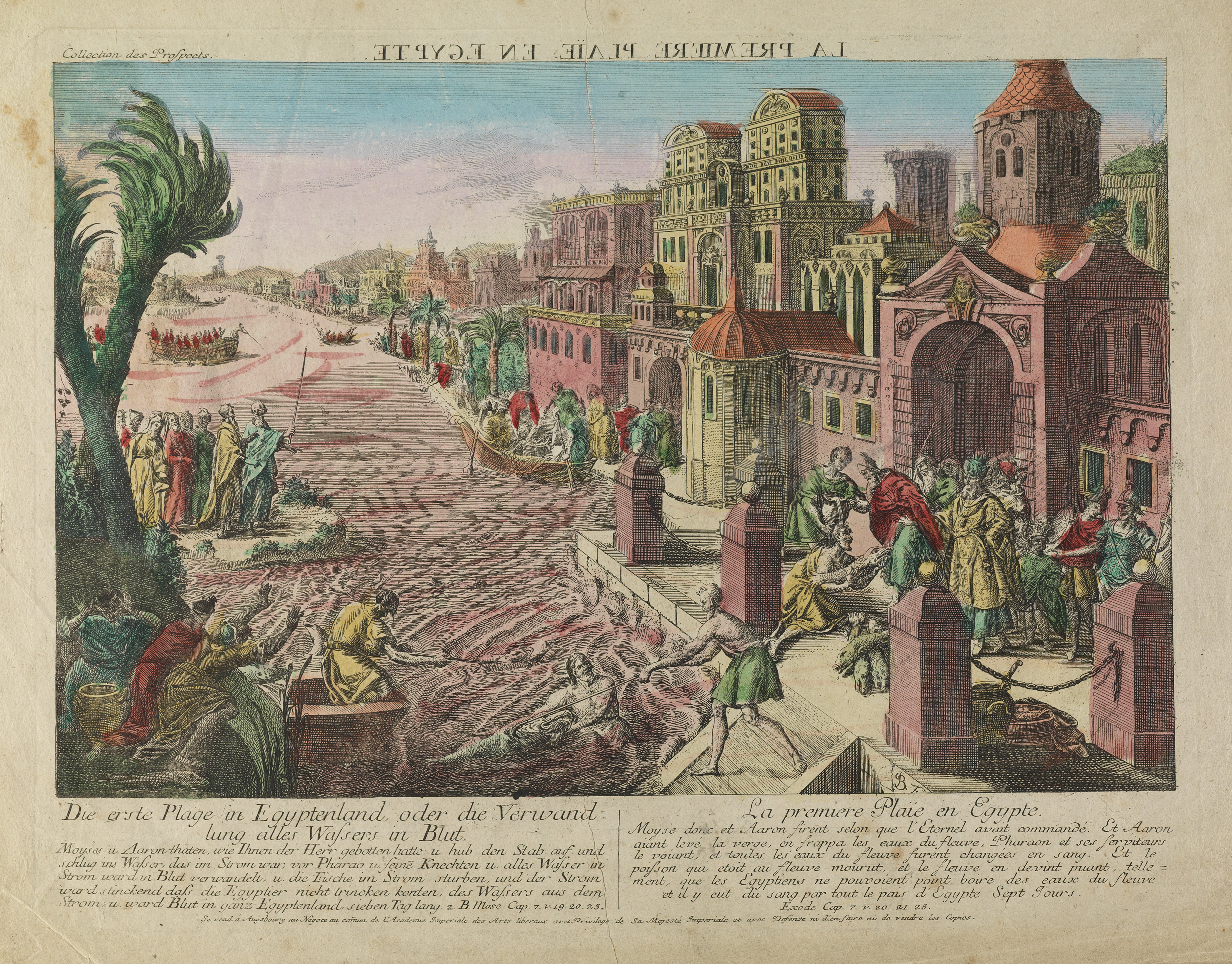 The first plague in Egypt, rivers turned to blood. Coloured etching. Lettering: Die erste Plage in Egyptenland, oder die Verwandlung alles Wassers in Blut. ... 2. Mose cap. 7.v.19, 20, 25. La premiere plaïe en Egypte. ... Exode cap. 7.v.20, 21, 25. The lettering above is in French and reversed. Lettering continues with paragraphs describing the particular plague. Iconographic Collections